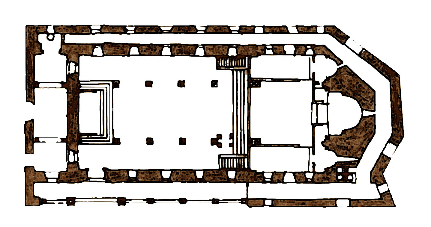 Cappella Palatina, Palermo